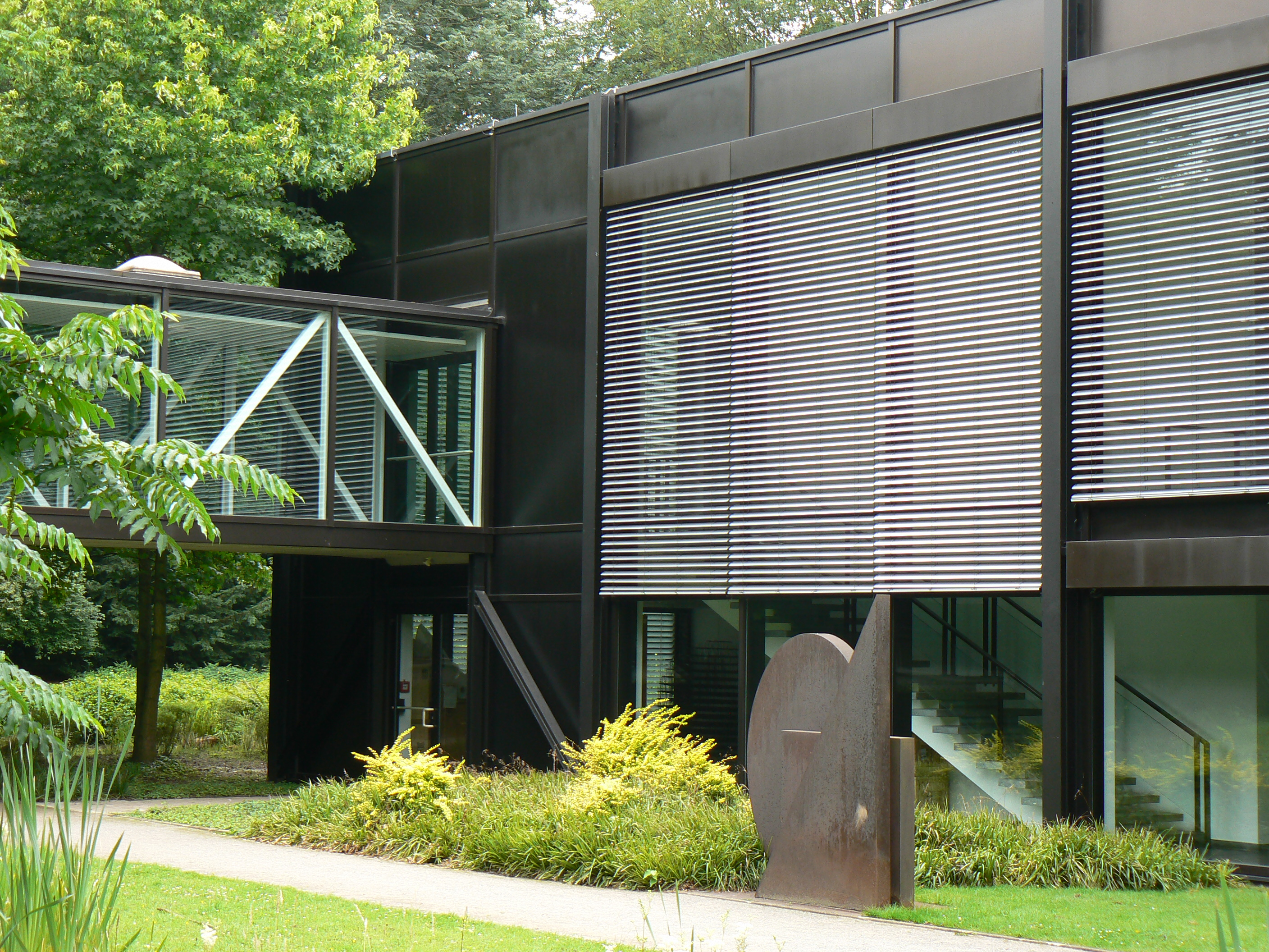 sculpture park at Quadrat Bottrop in Bottrop/Germany